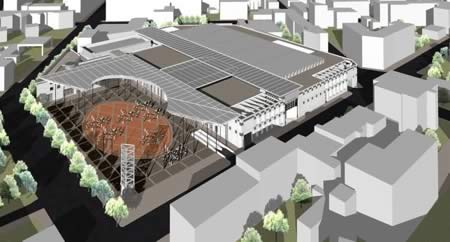 New train station Firenze Belfiore project